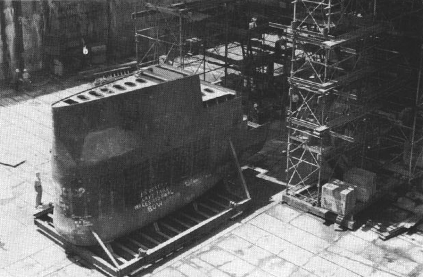 view of the new bow of the aircaft carrier USS Intrepid (CVS-11), containing the AN/SQS-23 sonar fitted during her major overhaul at the New York Naval Shipyard, which lasted from April to September 1965. Note the inscription: "Brooklyn Navy Yard makes its final bow" as the shipyard was closed in 1966.